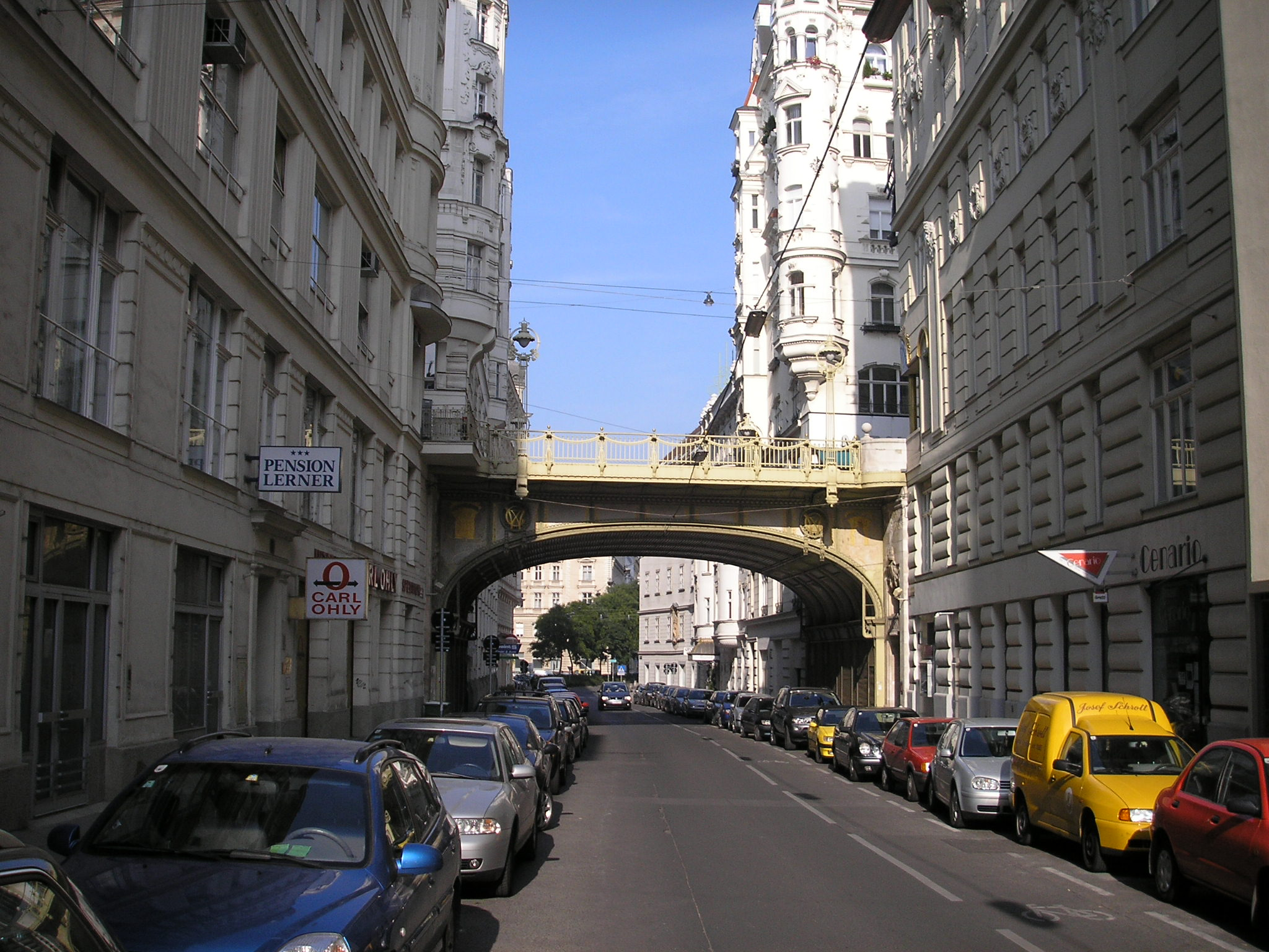 Image of the iron bridge over the Tiefer Graben street in Vienna's first district Innere Stadt.